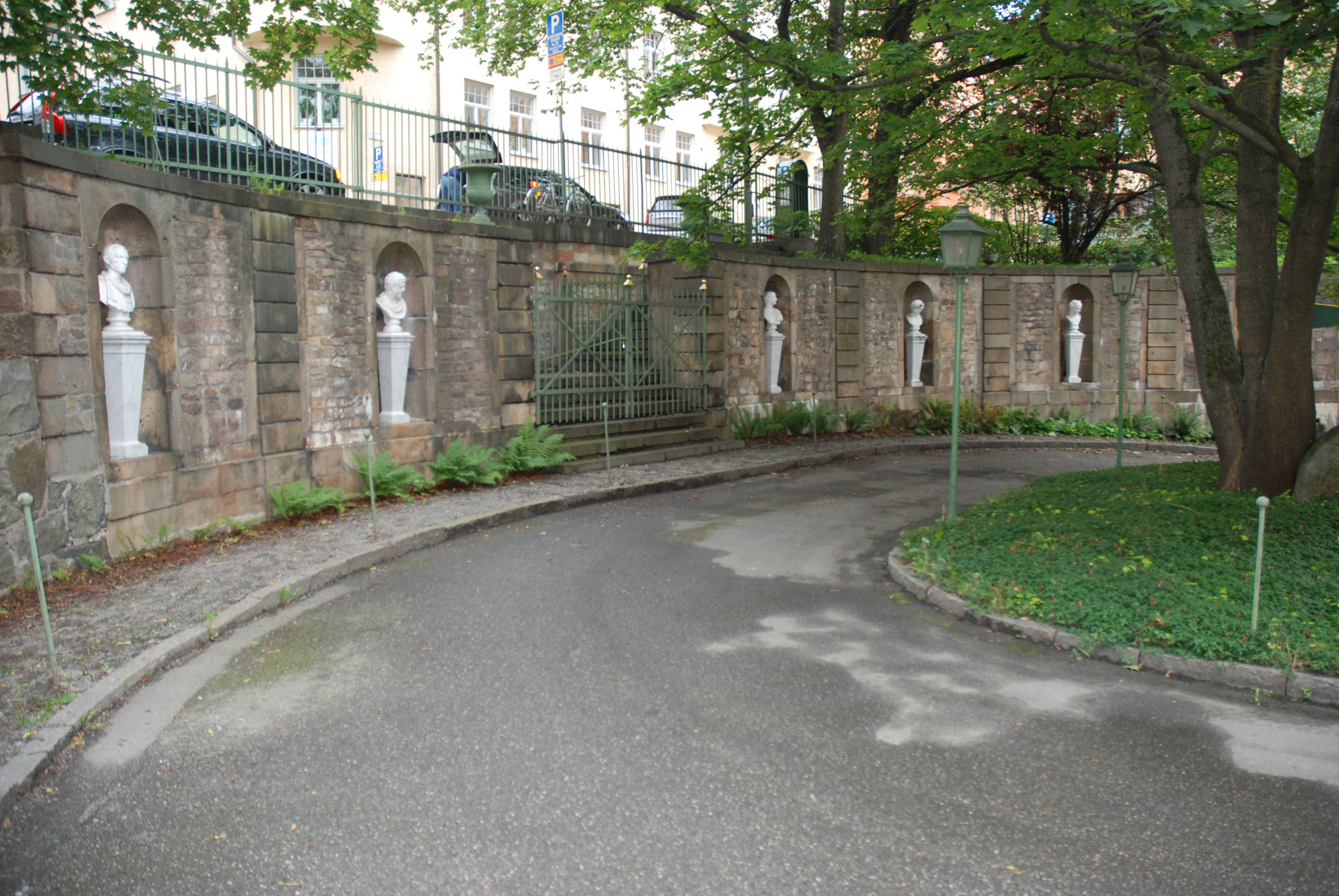 Piperska muren, Stockholm